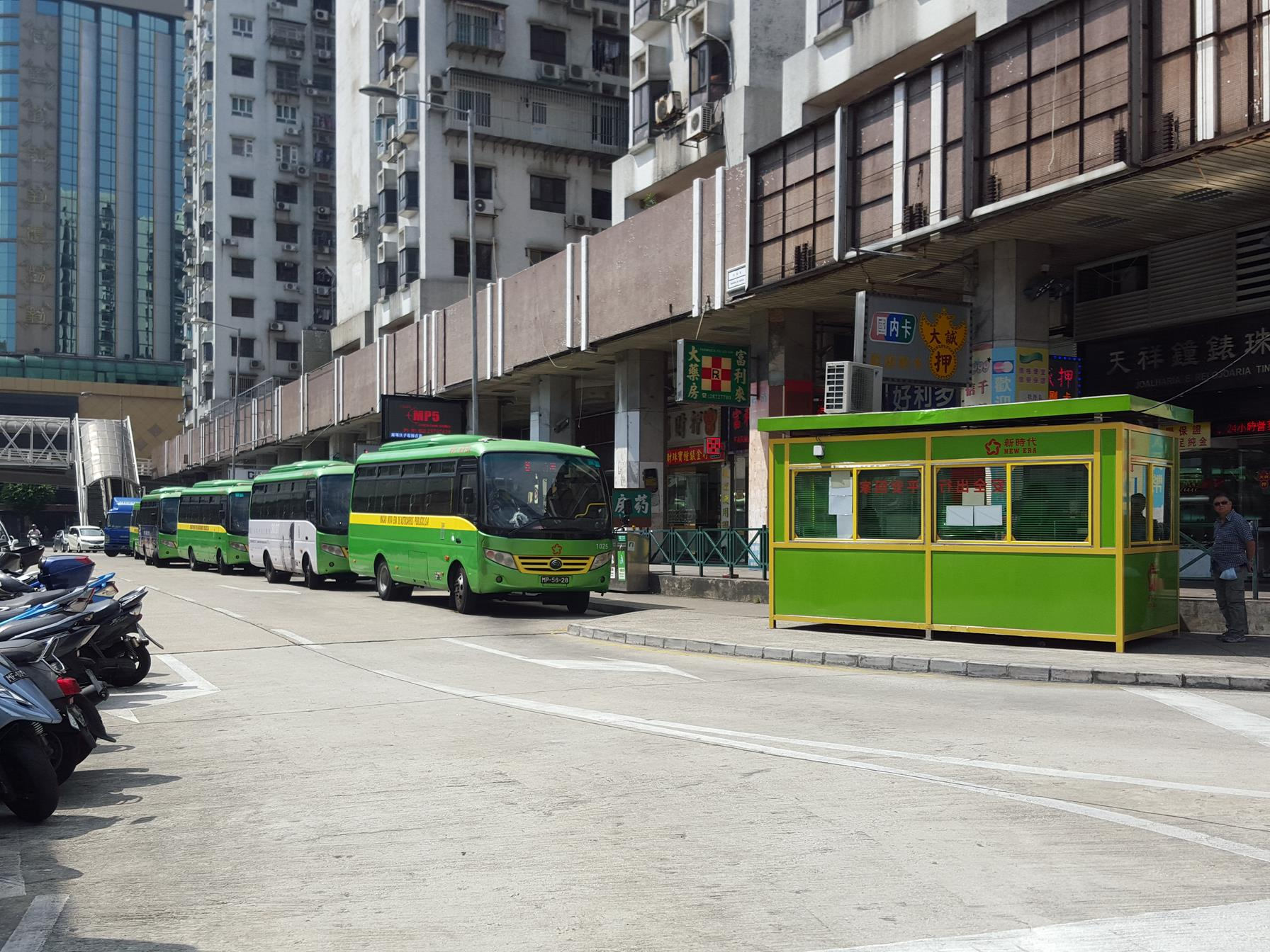 Jai Alai Terminal